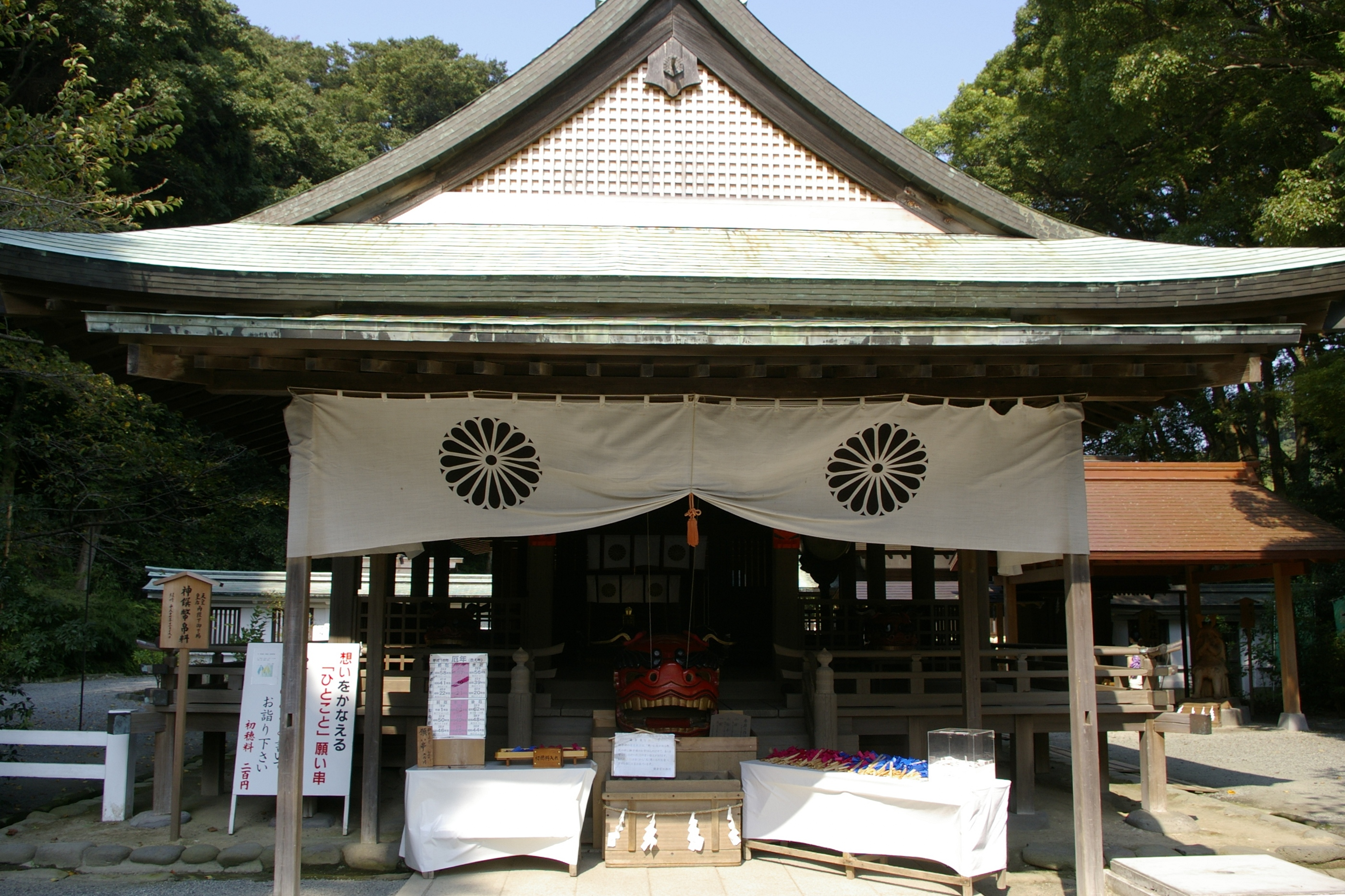 Haiden of the Kamakura-gu with the wooden lion head. The lion with the mouh open shall eat evil